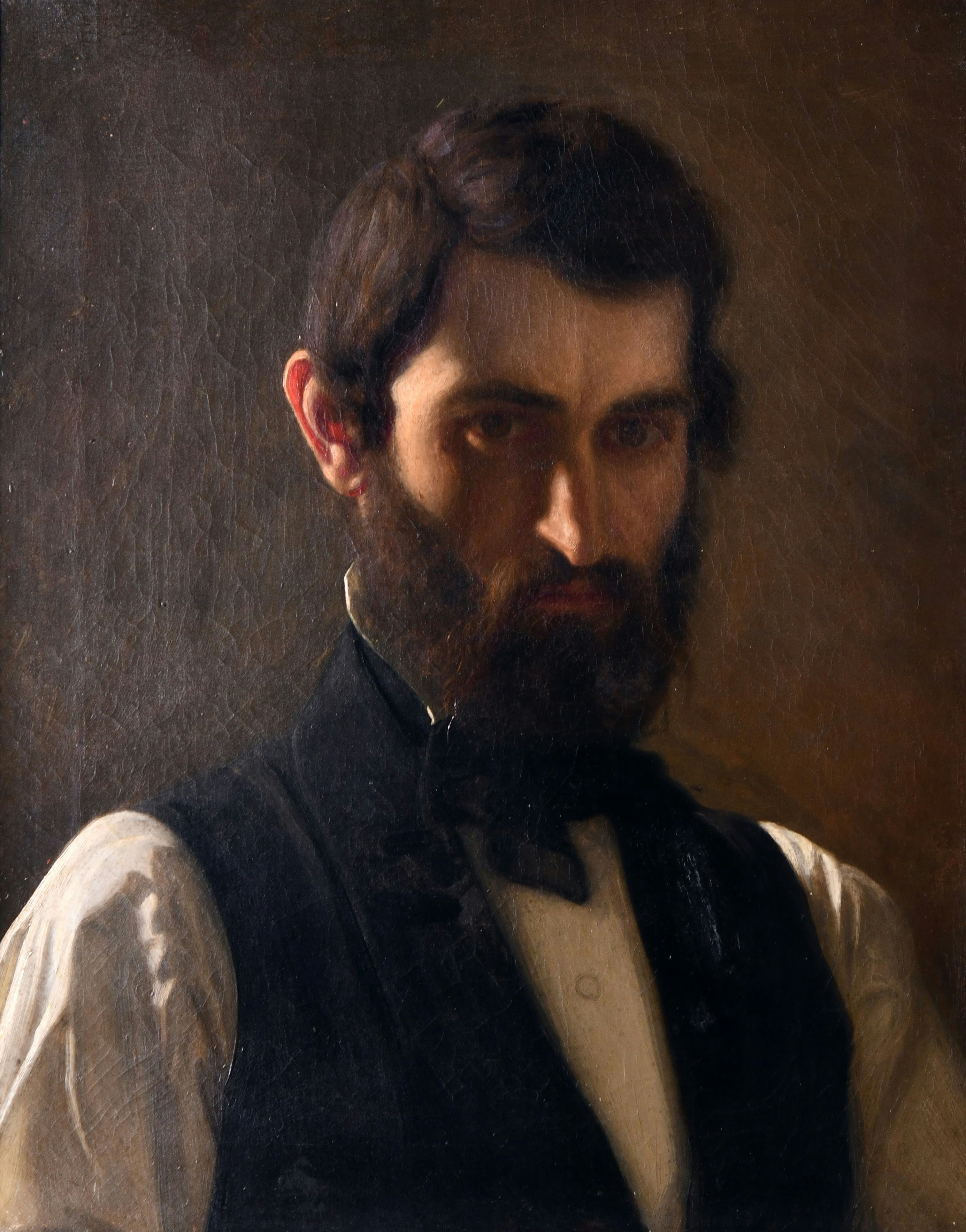 Self Portrait, Novak Radonic, 1857